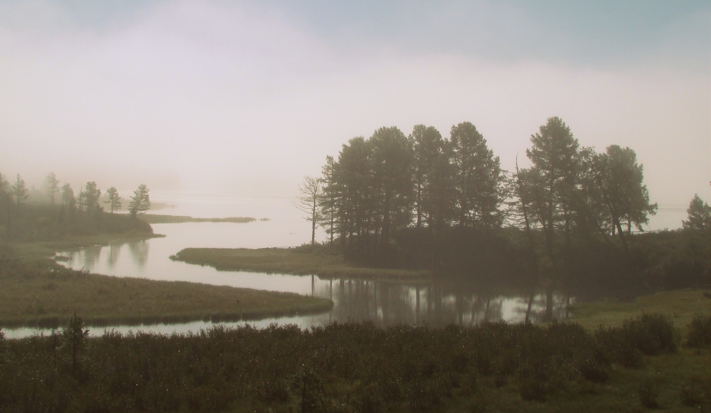 Fog on the mountain lake Tagley. Dzhidinsky region of Buryatia, Siberia